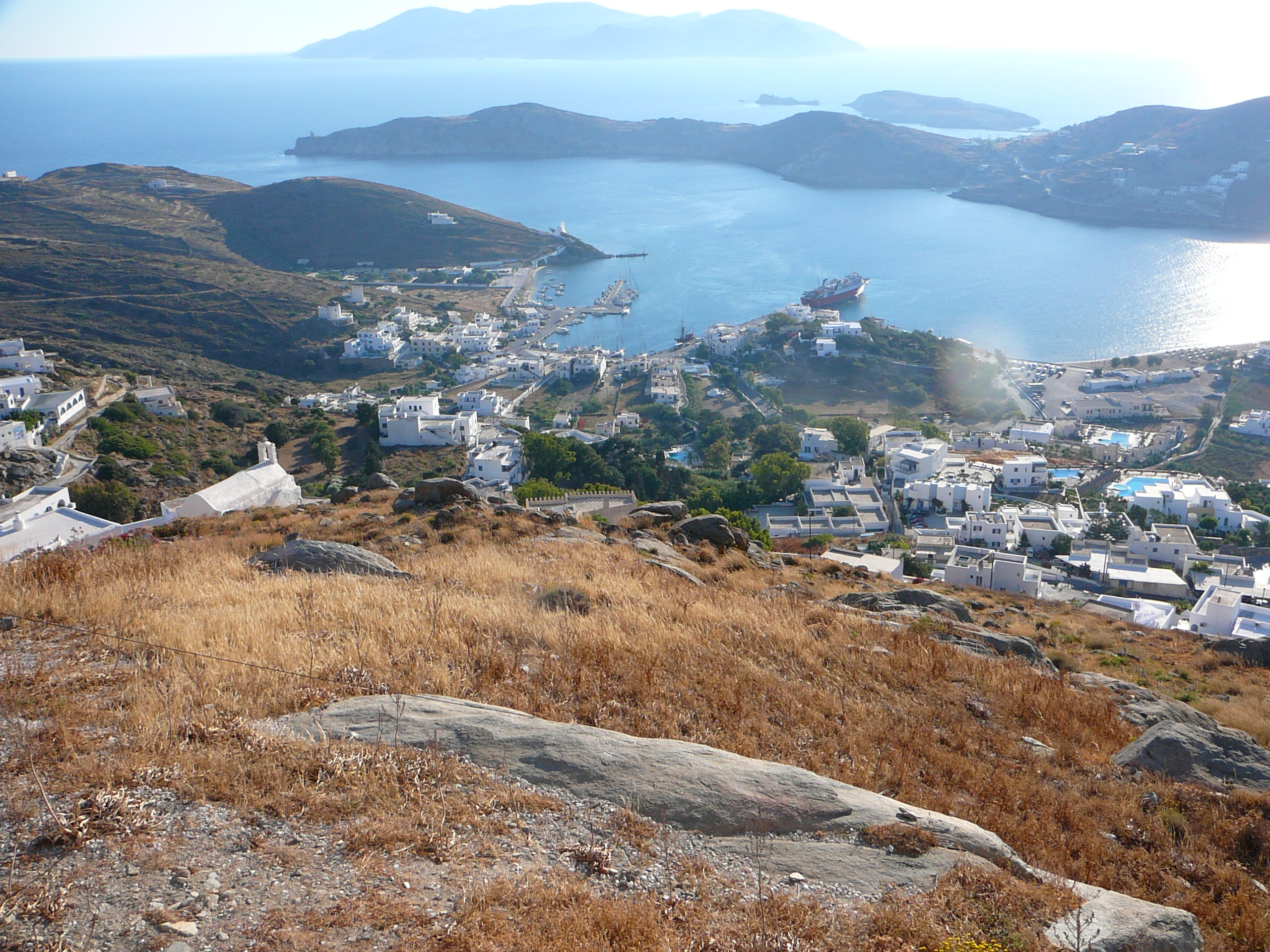 Harbor of Ios, Cyclades, Greece, Island of Sikinos in the background